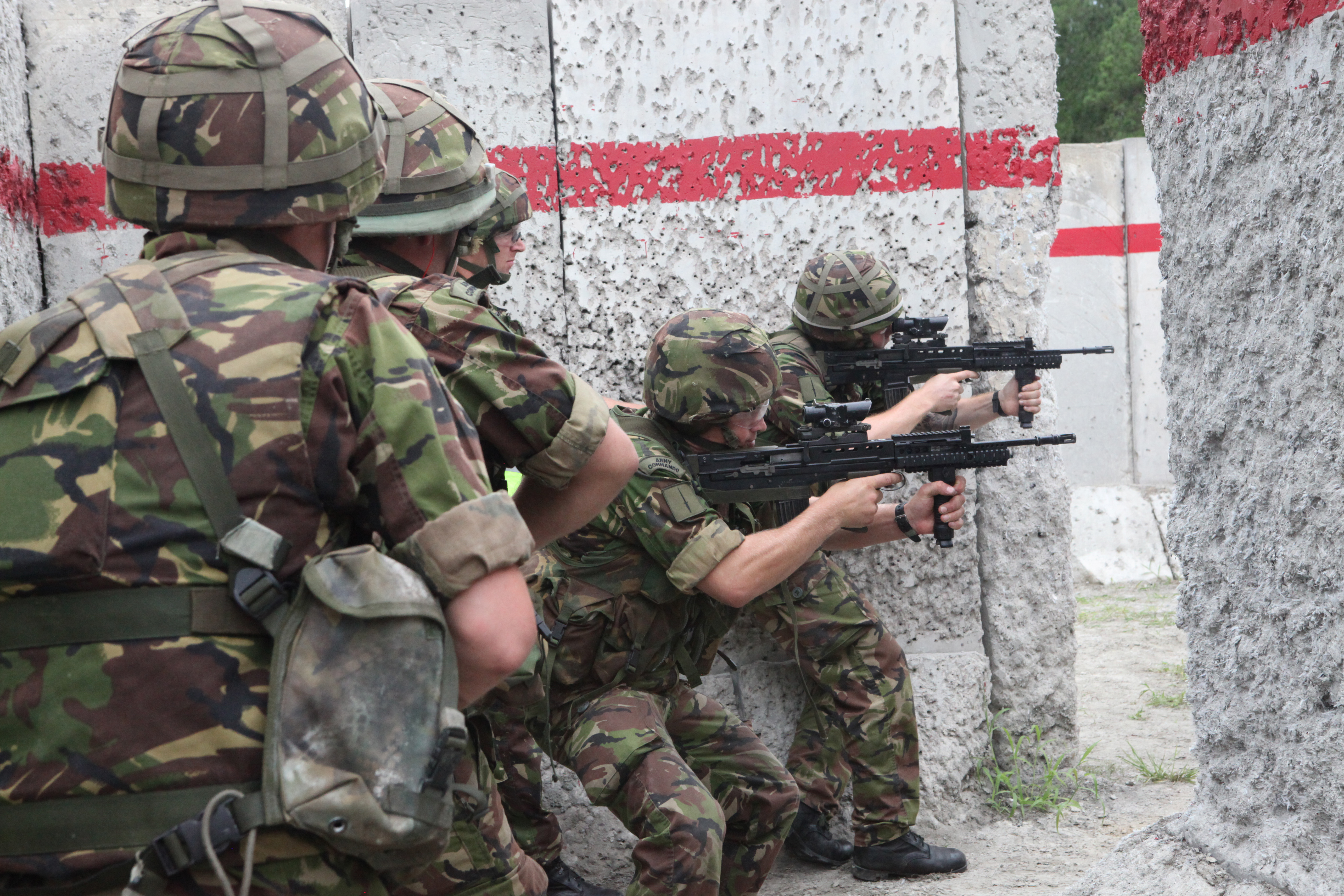 British service members with 30 Commando IX (Information Exploitation) Group, 3 Commando Brigade, Royal Marines, practice room-clearing techniques while moving through a building a live-fire training exercise at the Military Operations on Urban Terrain facility aboard Marine Corps Base Camp Lejeune, July 1. This exercise helped the British Commandos to hone their close-combat skills and have practical, hands-on experience with room clearance techniques.